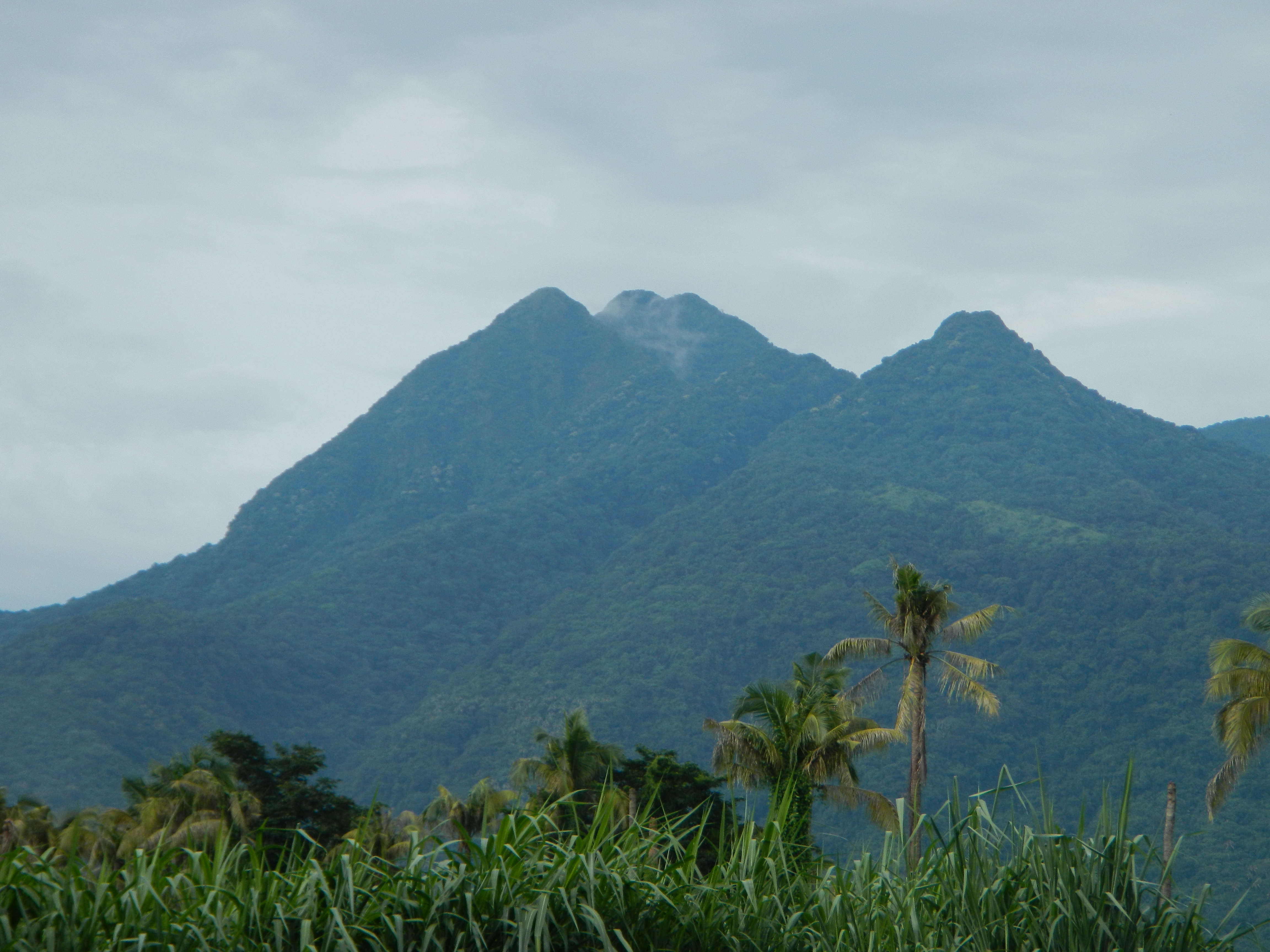 Mount Makiling[1] as seen from the -- Maharlika Highway, (Pan-Philippine Highway[2]( The Pan-Philippine Highway, also known as the Maharlika "Nobility/Free People") --- Barangay San Antonio, Santo Tomas, Batangas[3] Website --- Santo Tomas (also spelled as Sto. Tomas) is a first class municipality in the province of Batangas,[4] Philippines. According to the 2010 census, it has a population of 123,668 people. The town is a gateway to the province from Laguna. This is also the hometown of Philippine Revolution and Philippine-American War hero Miguel Malvar.[5] The patron of Santo Tomas is Saint Thomas Aquinas,[6] patron of Catholic schools celebrates his feast day every 7 March.Election Results 2013 Santo Tomas mayoral bet Edna Sanchez accused of vote-buying [7] Coordinates: 14°3'44"N 121°10'24"E Geographical location: Batangas, Region 4, Philippines, Asia Geographical coordinates: 14° 6' 33" North, 121° 8' 31" East This place is situated in Batangas, Region 4, Philippines, its geographical coordinates are 14° 6' 33" North, 121° 8' 31" East and its original name (with diacritics) is Santo Tomas. [8]